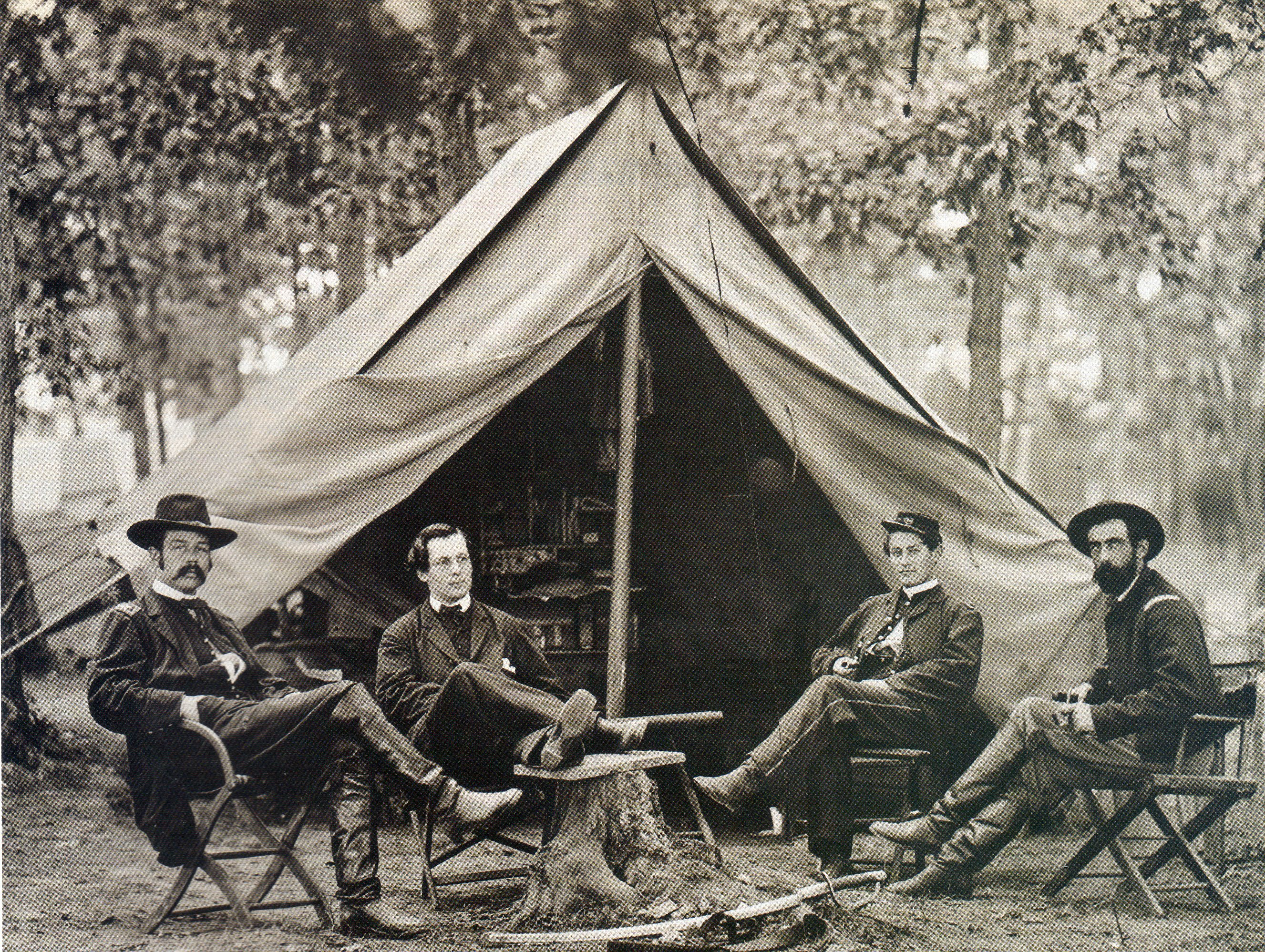 Col. George Henry Sharpe sits at far left with other members of his "Bureau of Military Information", John C. Babcock, unidentified officer, and Lt. Col. John McEntee, February, 1864. Photo taken in the store shop inside the Lincoln Memorial in 2000 at Washington D.C.